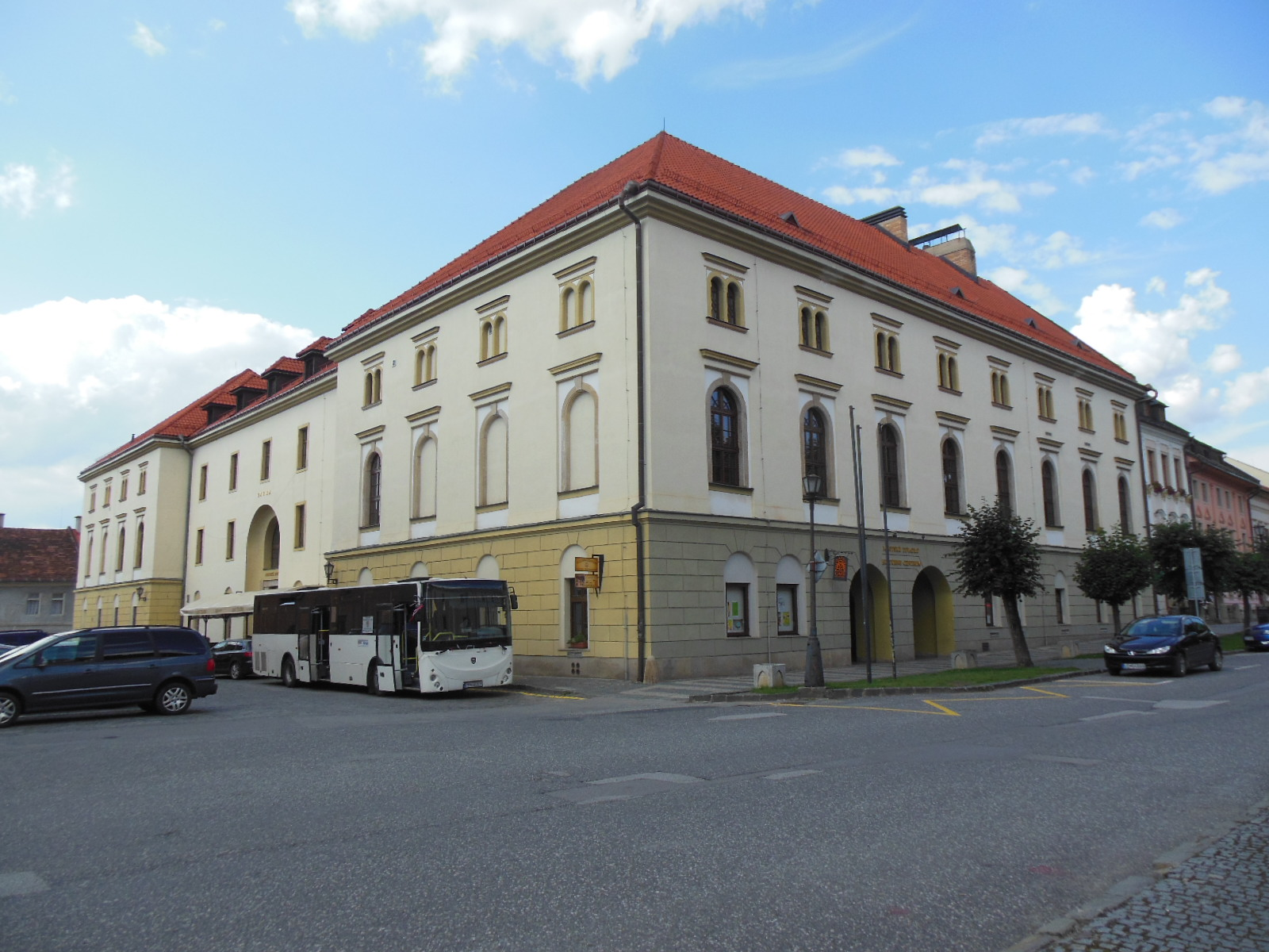 Mestské divadlo (City theatre) in Levoča, Slovakia. August 2018.